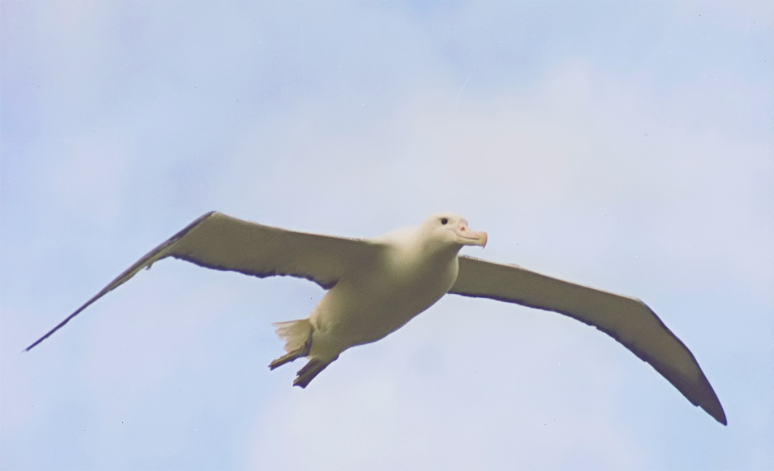 Southern Royal Albatross flies at Campbell Island . The image is a scan of my old print. The image was taken by Brocken Inaglory